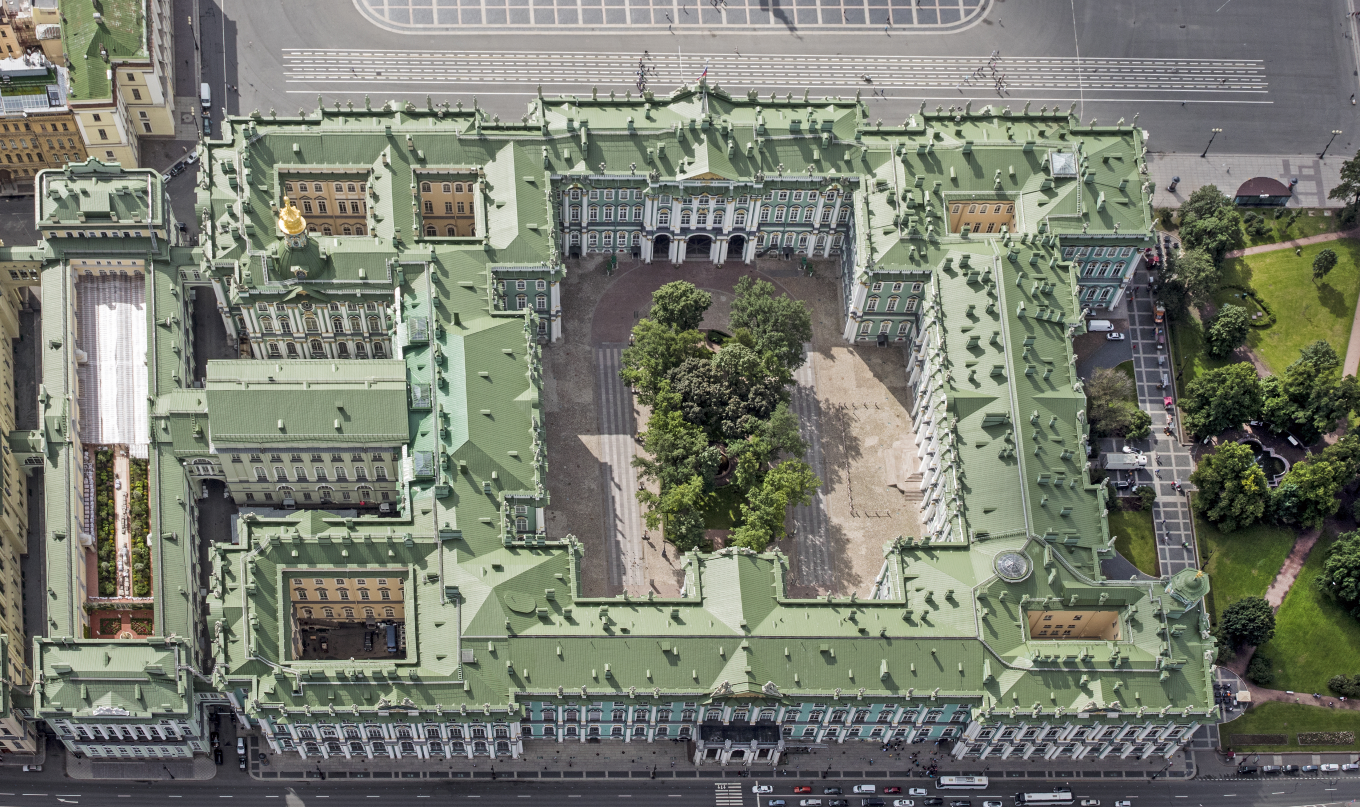 An aerial view of the Winter Palace, Saint Petersburg, Russia. Altitude ~1,000 - 1,200 feet.